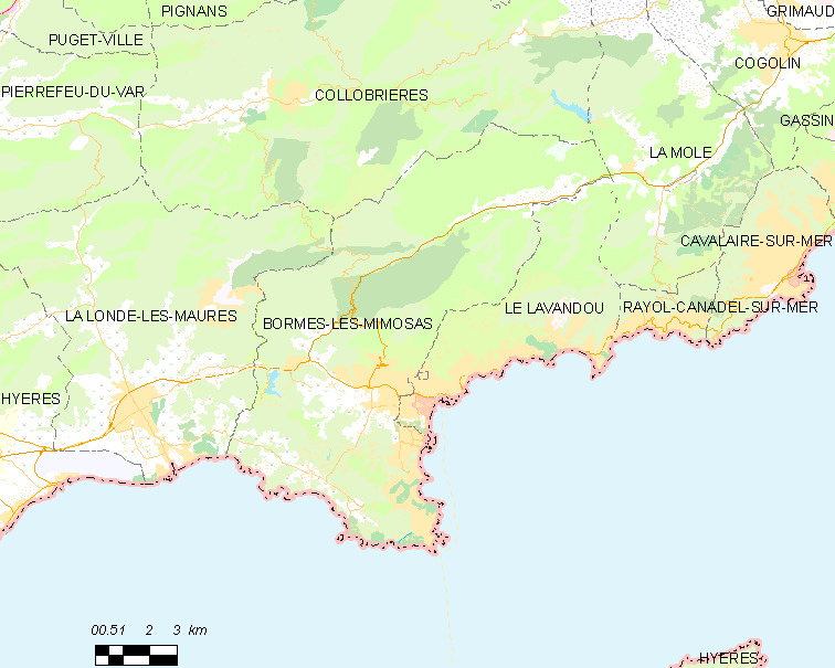 Map of French municipality Bormes-les-Mimosas